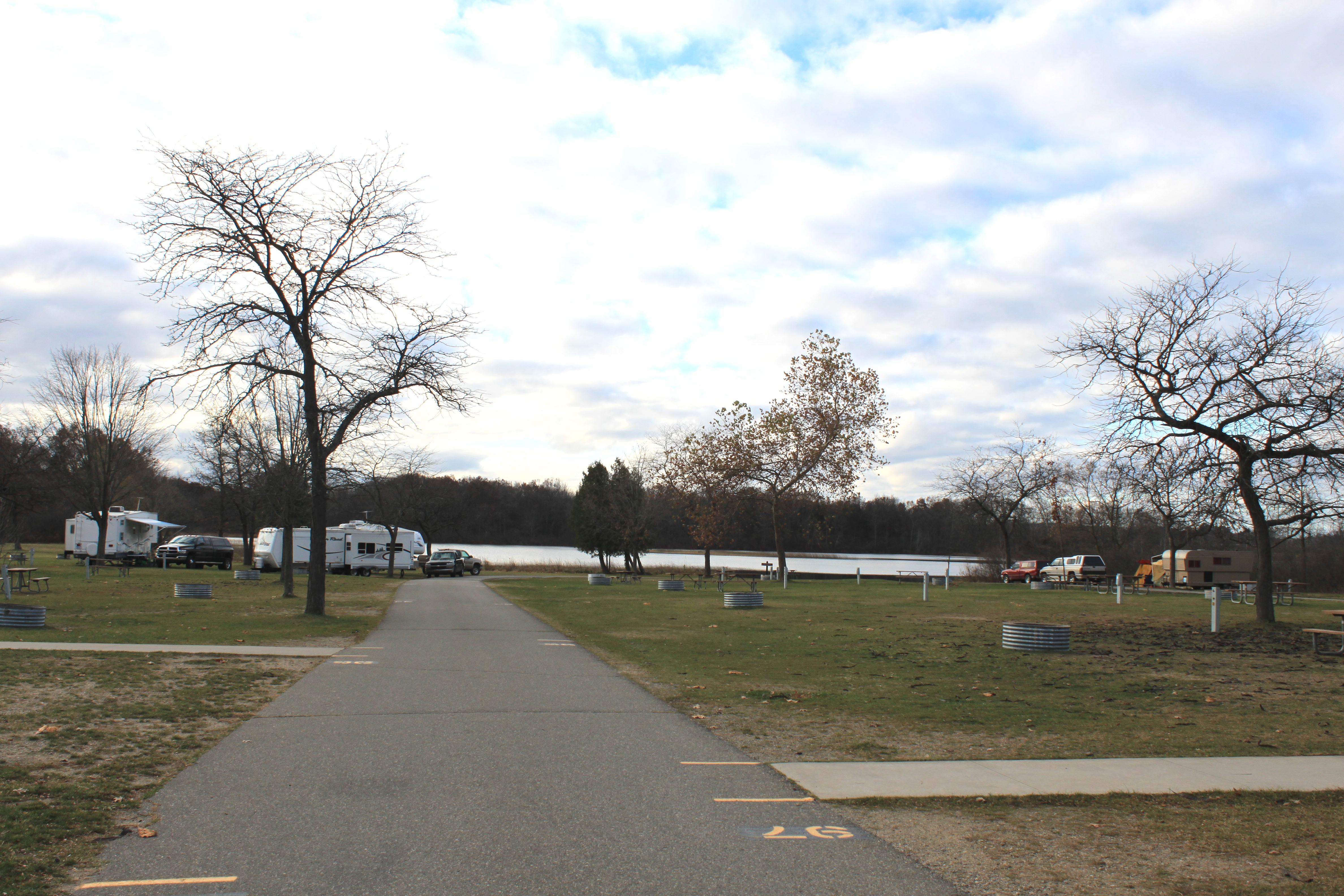 Bishop Lake Campground, Brighton Recreation Area, 5210 Bishop Lake Road, Brighton, Michigan